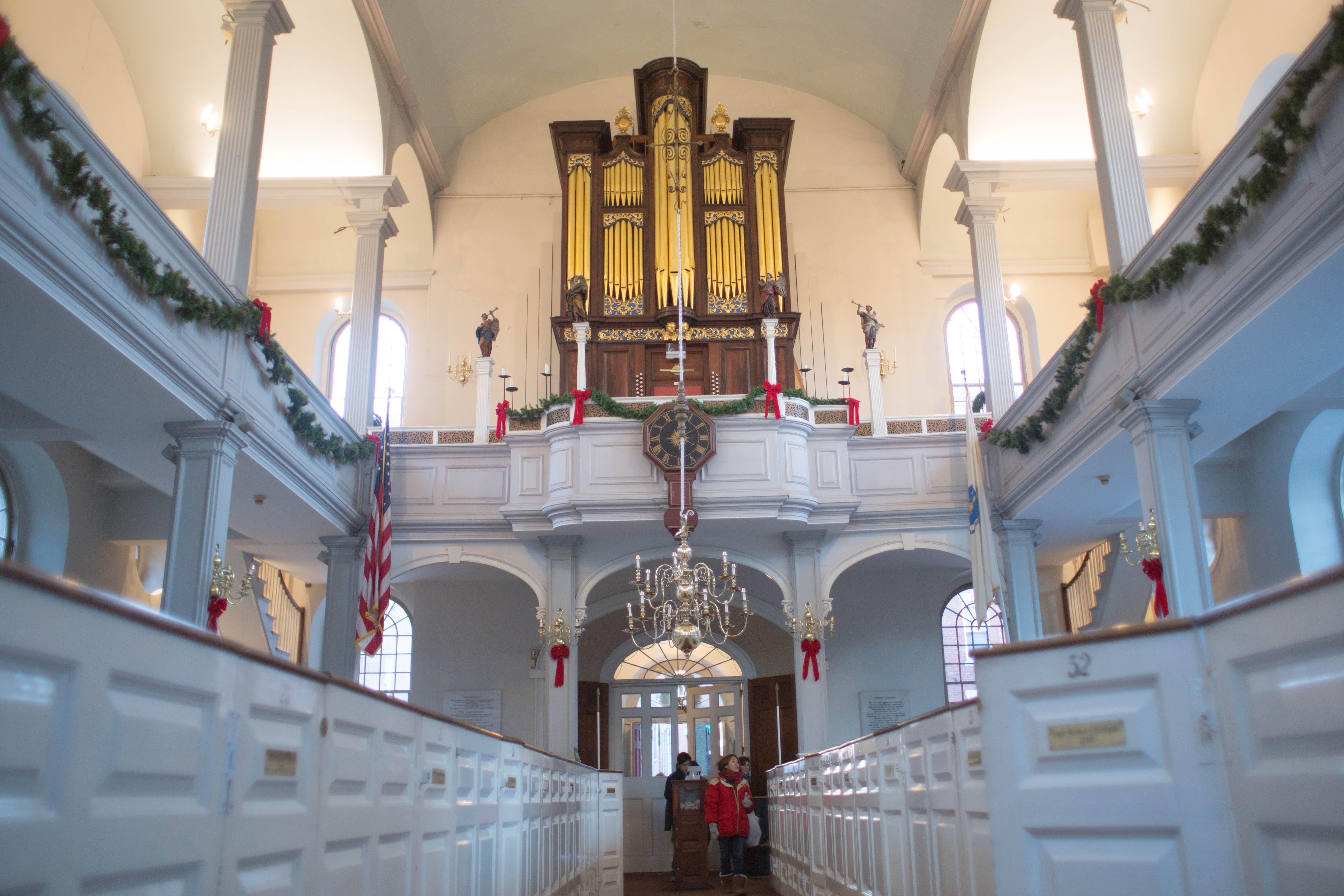 Paul Revere church interior , Boston, Mass